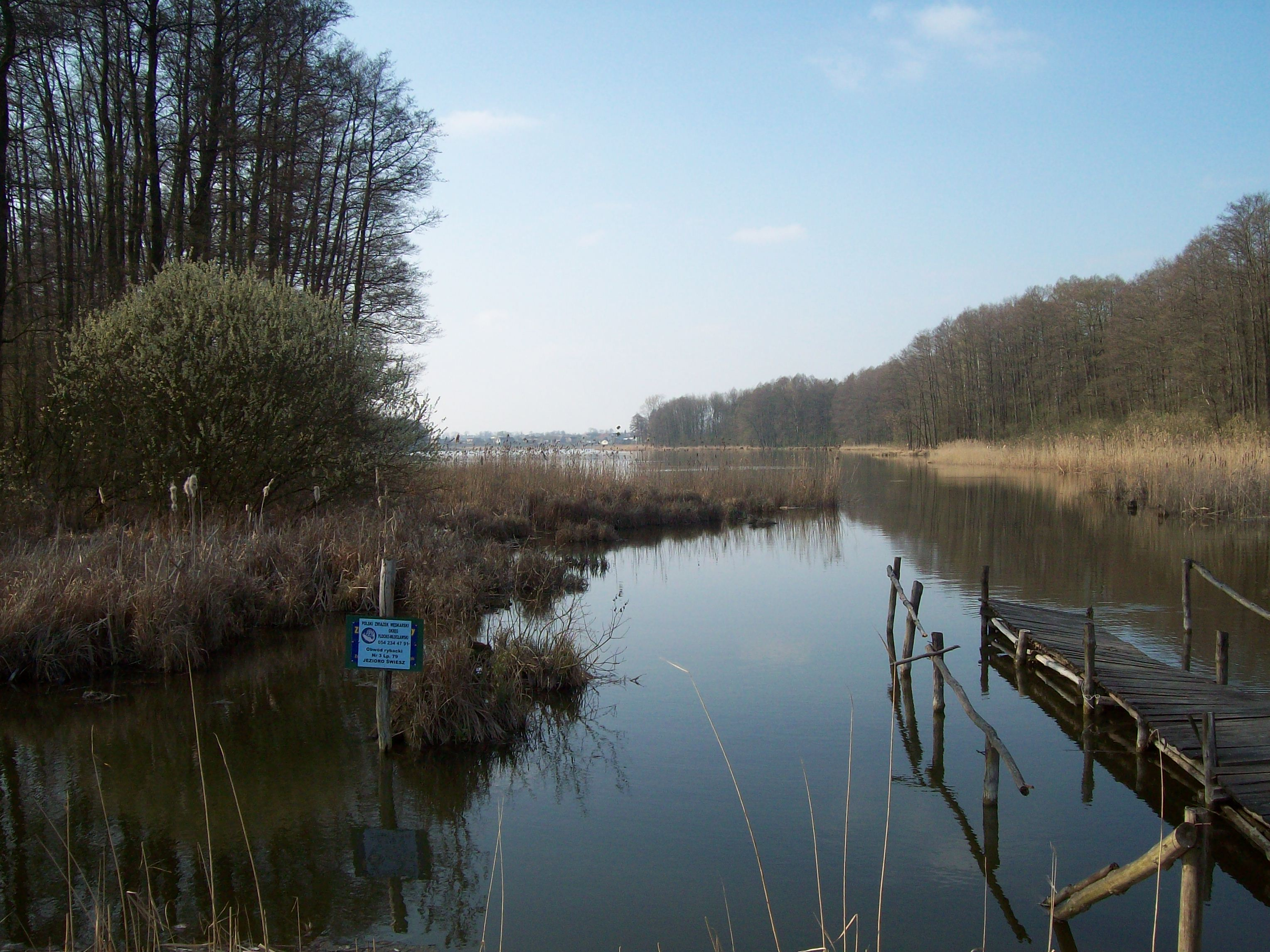 Jezioro Świesz - sight from causeway from village Trojaczek side